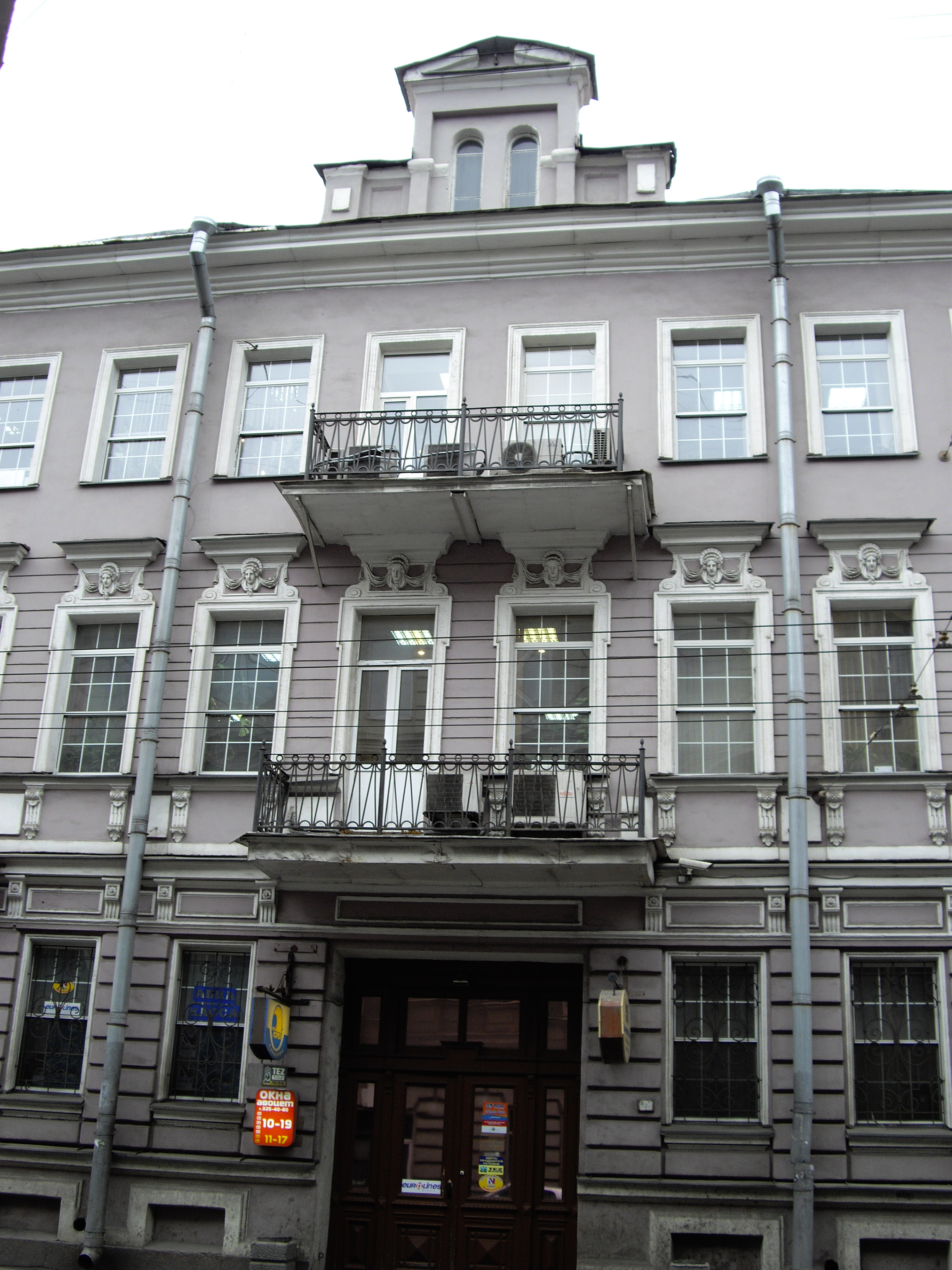 41, Bolshaya Pushkarskaya street (Saint Petersburg, Russia): Alferov house (architect Peter Gilev, 1898-1899).